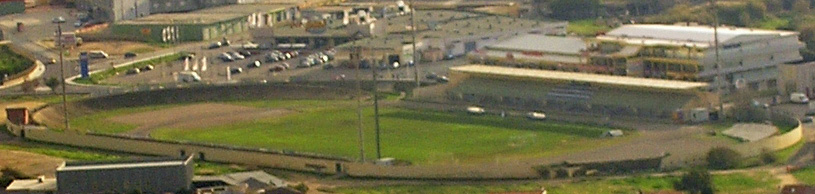 The Comunale stadium in Carbonia, Sardinia, Italy, seen from monte Leone